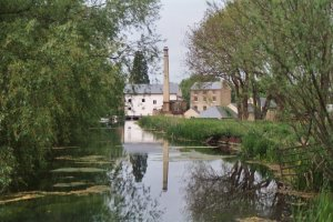 Stotfold Mill, Mill Lane This watermill has been fully restored to working condition following a fire which almost destroyed the building in 1992. It has the UK's widest cornmill waterwheel and is a magnificent site to see.